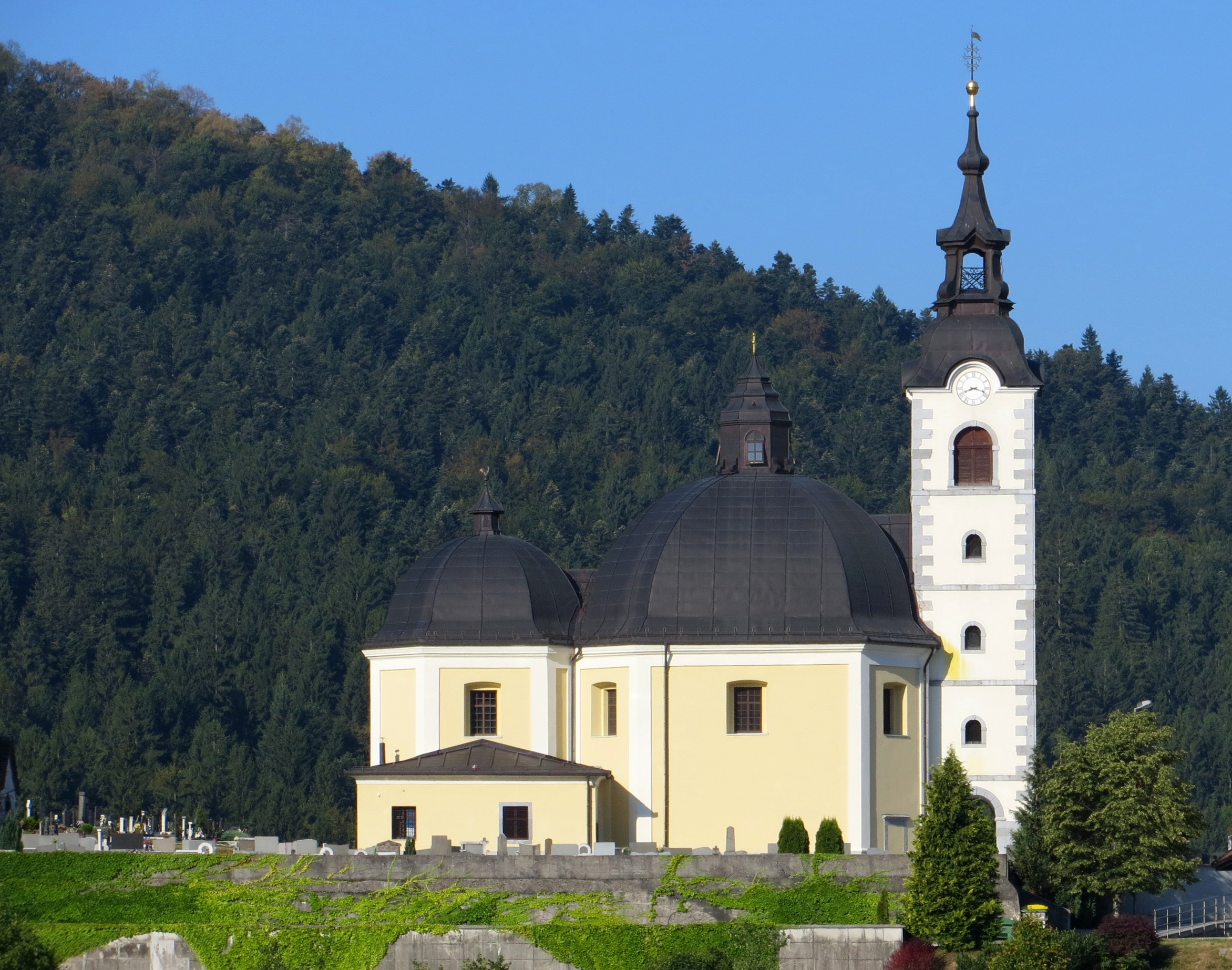 Saint Vitus' Church in Preserje, Municipality of Brezovica, Slovenia